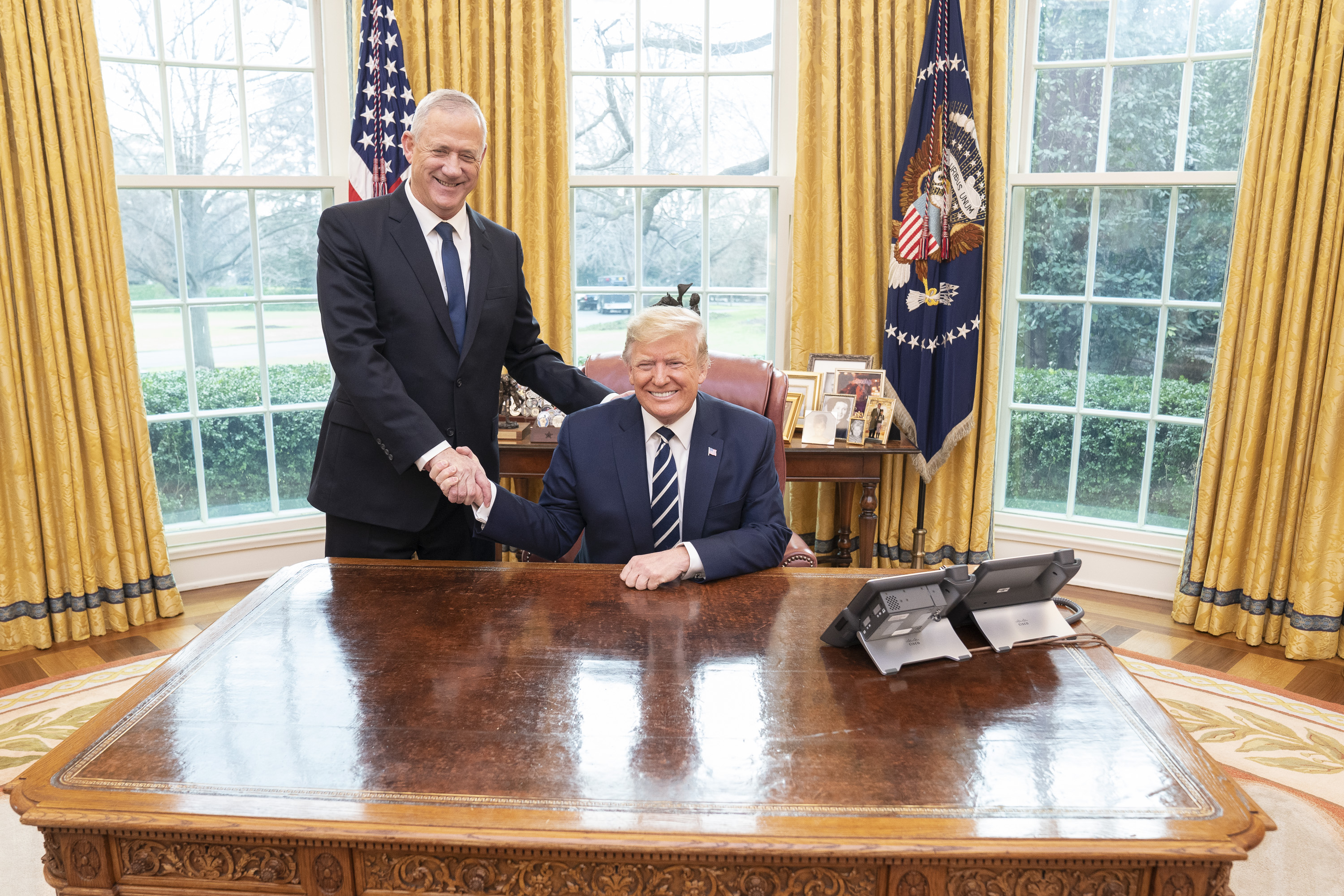 President Donald J. Trump welcomes LTG. (Res.) MK Benjamin Gantz, leader of Israel’s Blue and White party Monday, Jan. 27, 2020, to the Oval Office of the White House. (official White House Photo by Shealah Craighead)